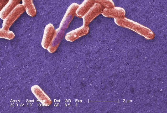 SEM micrograph artificially colored